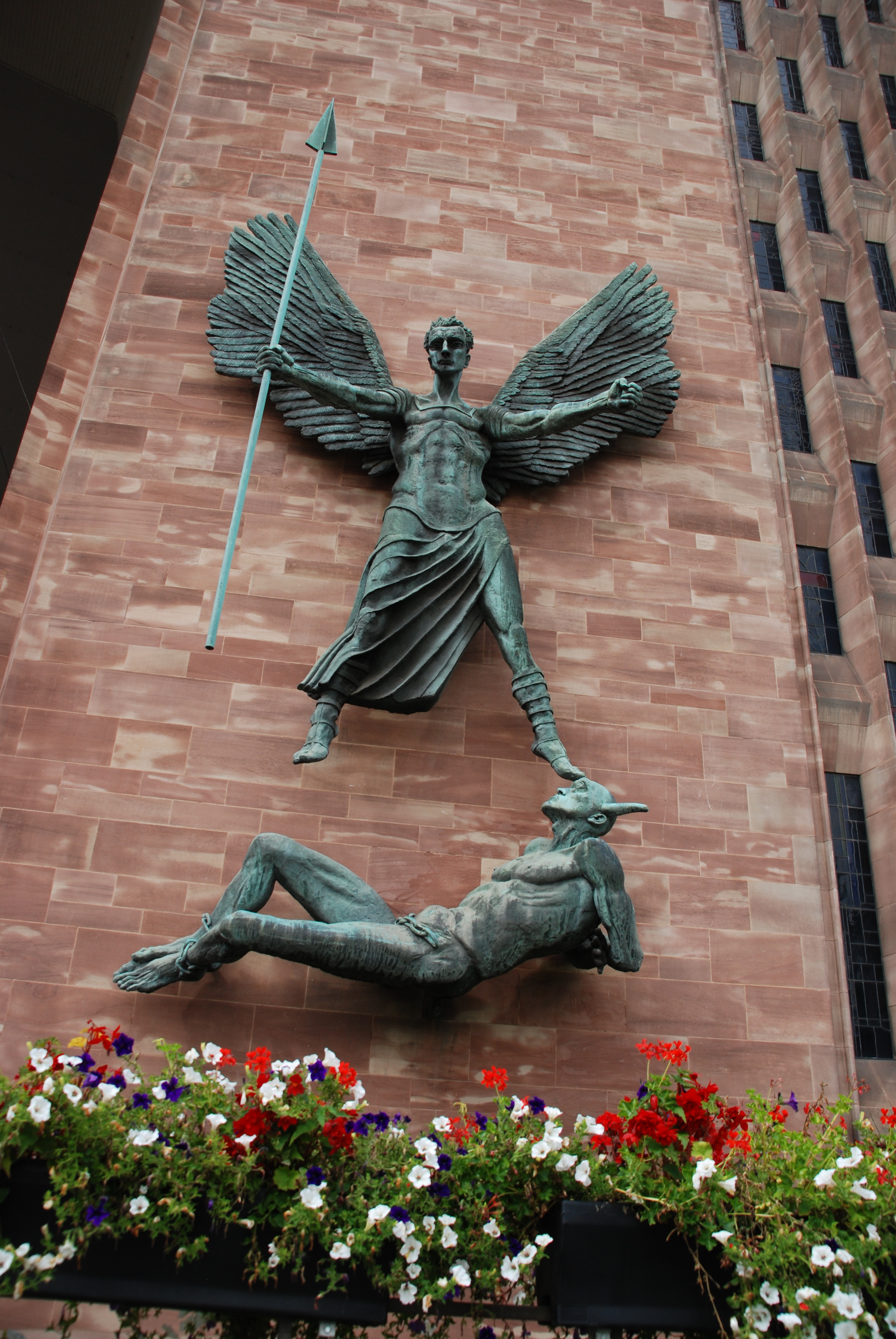 Coventry Cathedral